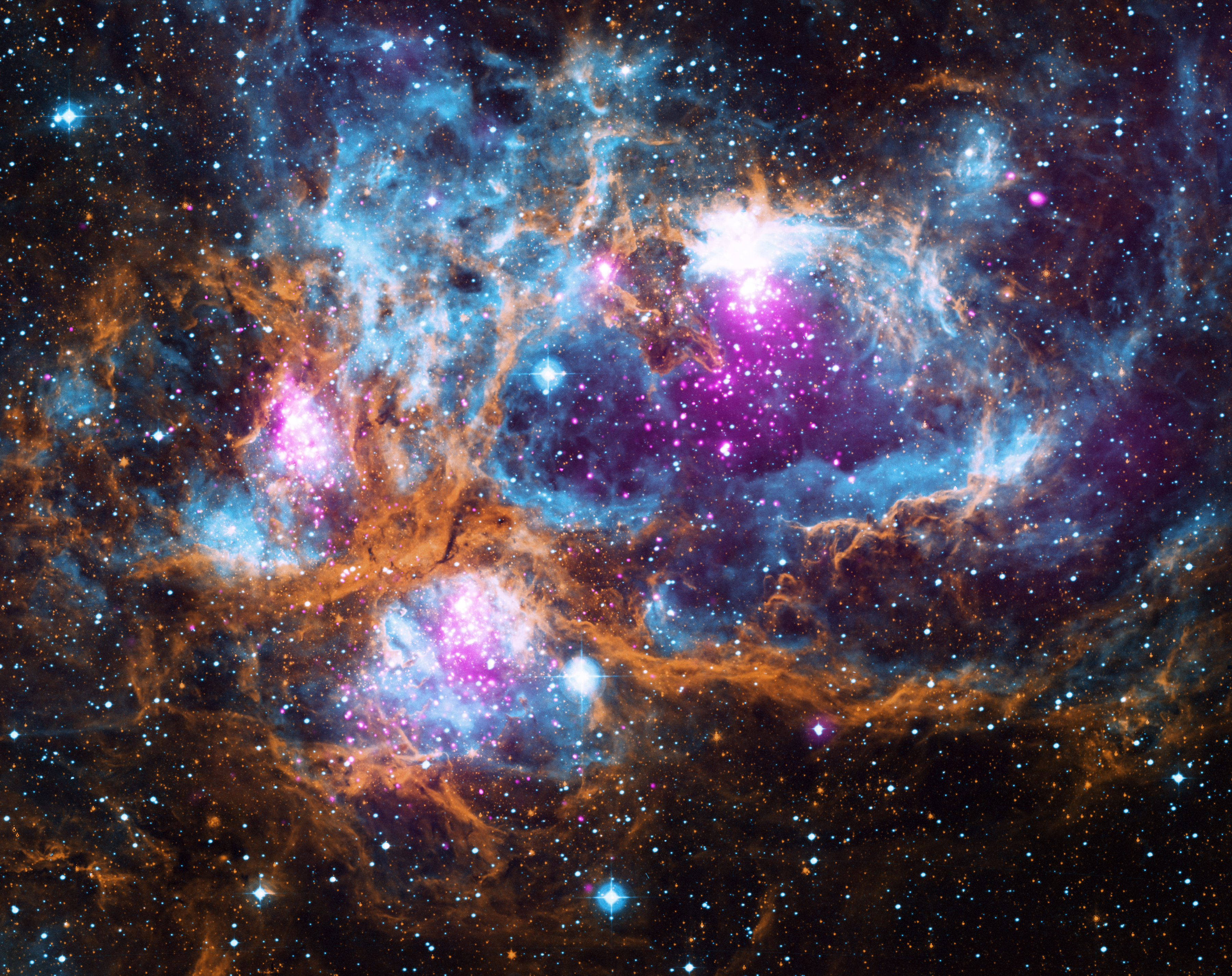 Although there are no seasons in space, this cosmic vista invokes thoughts of a frosty winter landscape. It is, in fact, a region called NGC 6357 where radiation from hot, young stars is energizing the cooler gas in the cloud that surrounds them. This composite image contains X-ray data from NASA’s Chandra X-ray Observatory and the ROSAT telescope (purple), infrared data from NASA’s Spitzer Space Telescope (orange), and optical data from the SuperCosmos Sky Survey (blue) made by the United Kingdom Infrared Telescope. Located in our galaxy about 5,500 light years from Earth, NGC 6357 is actually a “cluster of clusters,” containing at least three clusters of young stars, including many hot, massive, luminous stars. The X-rays from Chandra and ROSAT reveal hundreds of point sources, which are the young stars in NGC 6357, as well as diffuse X-ray emission from hot gas. There are bubbles, or cavities, that have been created by radiation and material blowing away from the surfaces of massive stars, plus supernova explosions. Astronomers call NGC 6357 and other objects like it “HII” (pronounced “H-two”) regions. An HII region is created when the radiation from hot, young stars strips away the electrons from neutral hydrogen atoms in the surrounding gas to form clouds of ionized hydrogen, which is denoted scientifically as “HII”. Researchers use Chandra to study NGC 6357 and similar objects because young stars are bright in X-rays. Also, X-rays can penetrate the shrouds of gas and dust surrounding these infant stars, allowing astronomers to see details of star birth that would be otherwise missed.